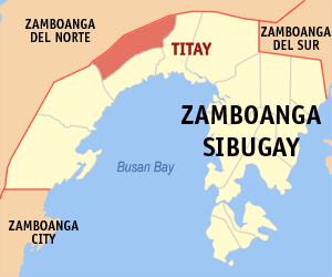 Map of the Zamboanga Sibugay showing the location of Titay